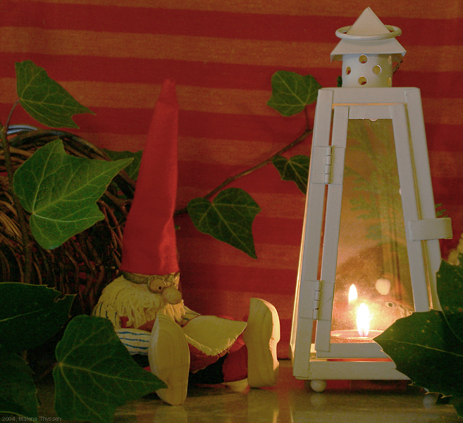 Pixie-like figure associated with Christmas in Scandinavia (danish: Nisse). This nisse I made myself out of salty dough, a bit of fabric and paint and a pair of tiny wooden shoes.